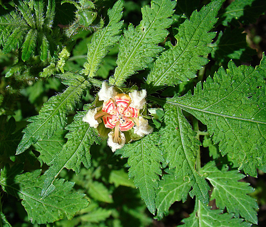 Also known as Loasa rudis and to be felt from Guatemala to Peru. Photo from Bajo Mono, western Panama. In context at